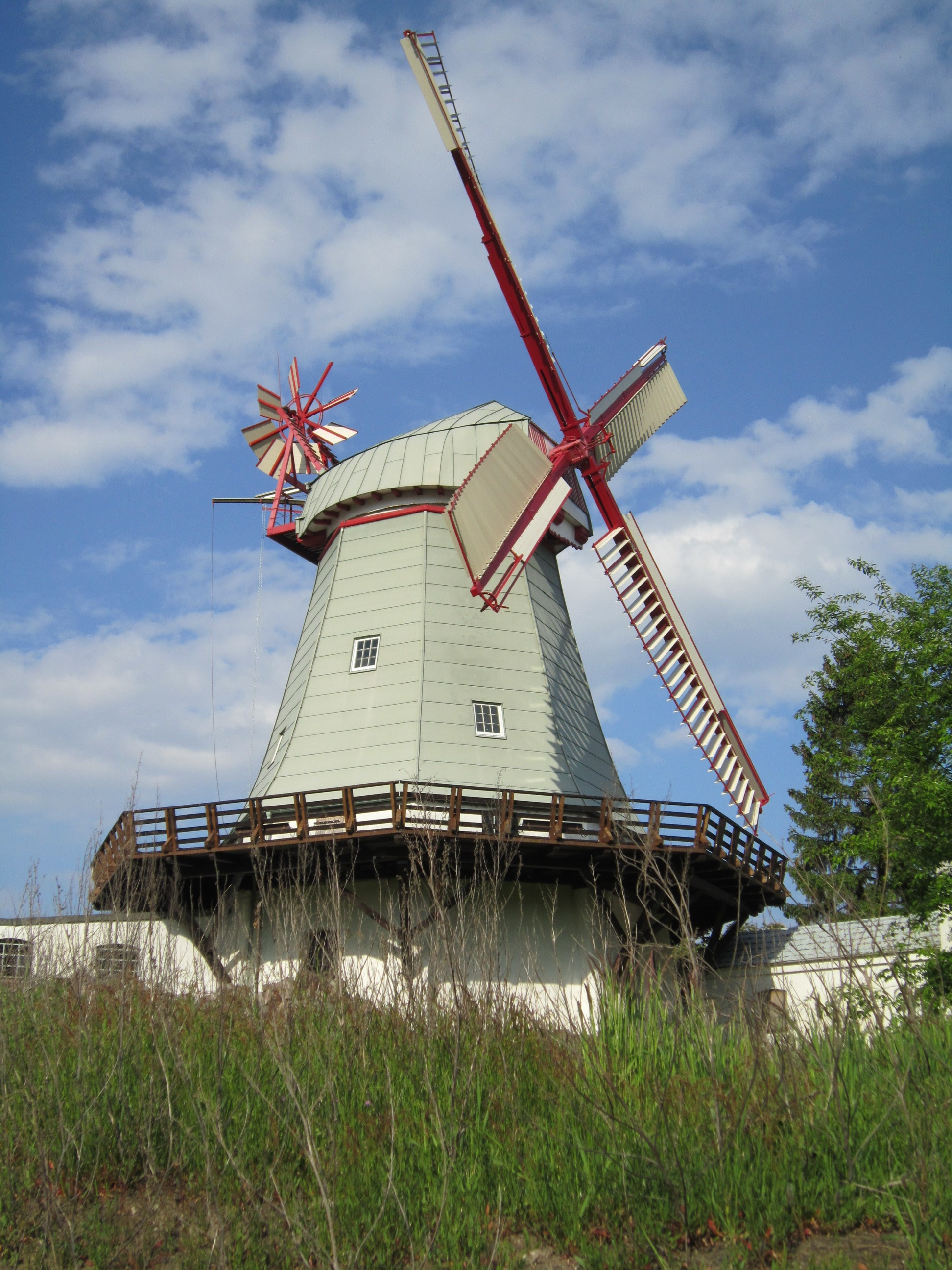 Windmill in Bremen-Arbergen